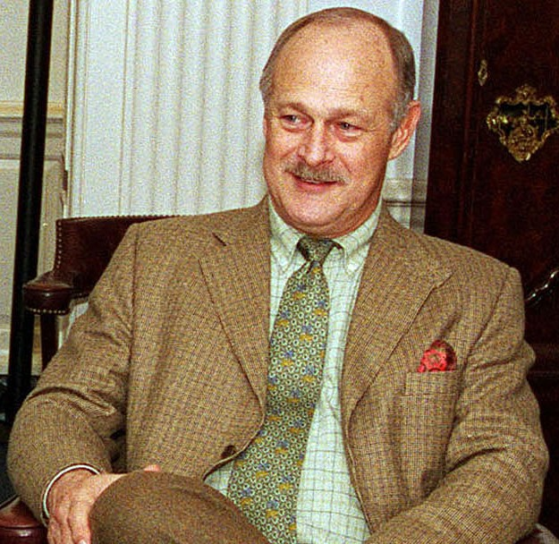 Gerald McRaney in meeting, but everything but McRaney is cropped out. Original description: Actor Gerald McRaney visits with Defense Secretary William S. Cohen in his Pentagon office